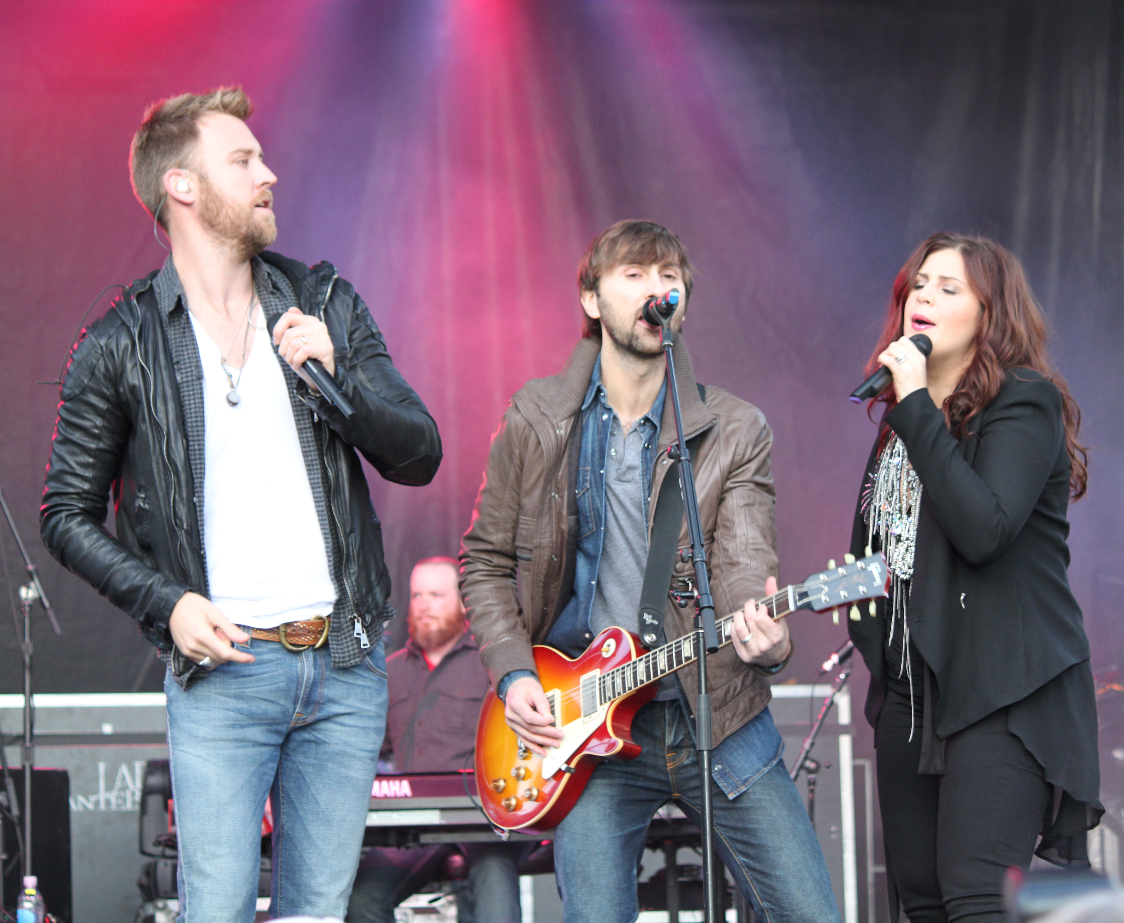 Lady Antebellum play in Charlotte